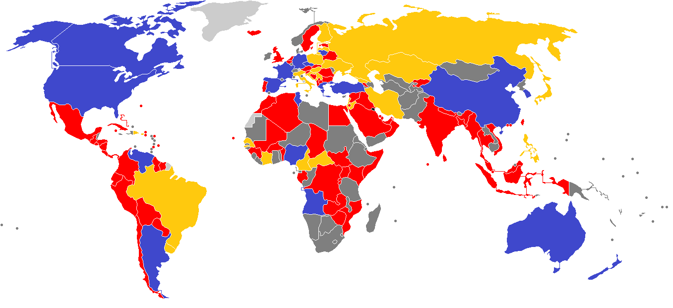 Status of teams with the intent of participating in the w:2019 FIBA Basketball World Cup. Already qualified Country may qualify Failed to qualify Did not participate Suspended and disqualified Country not a FIBA member